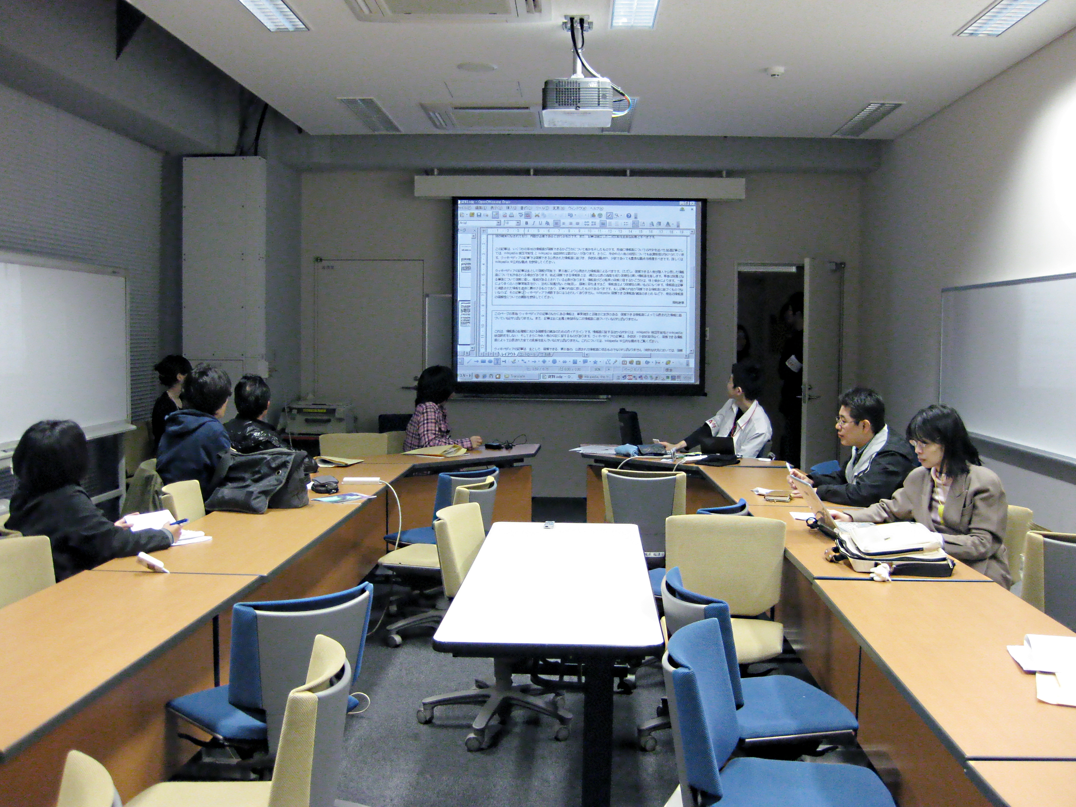 "Wikipedia Translation Workshop" (Track D) at Wikimedia Conference Japan 2009.